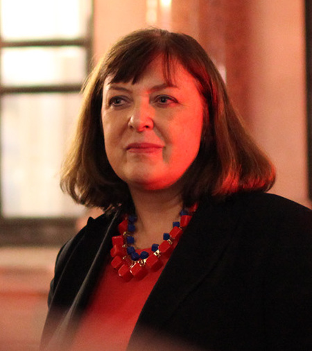 Bridget Kendall at an International Women's Day event held at the Foreign & Commonwealth Office in London, 9 March 2015.